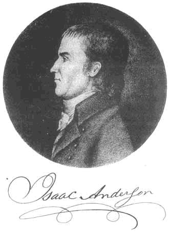 Isaac Anderson, Congressman from Pennsylvania